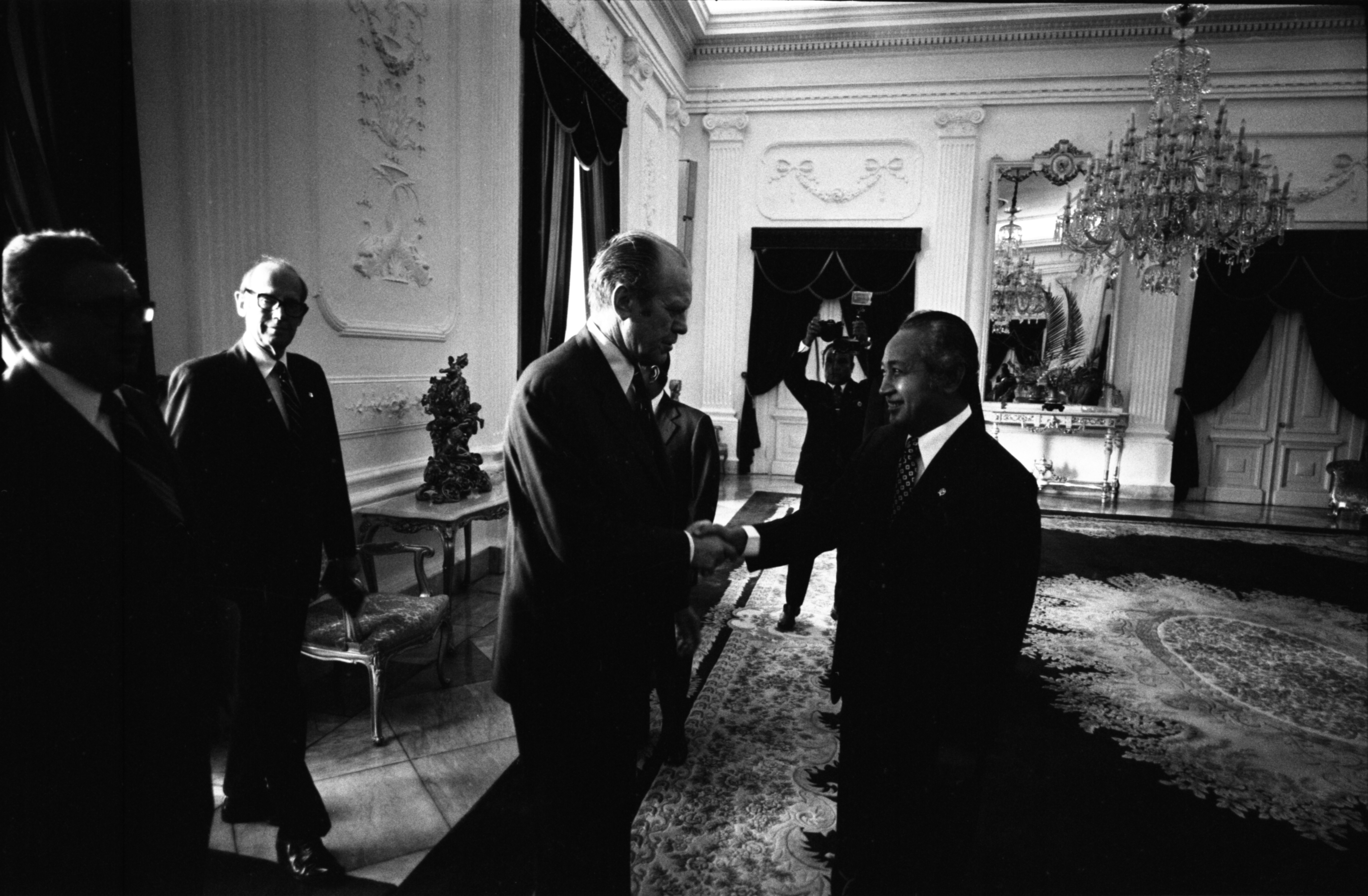 R-L: Suharto, Gerald Ford, David D. Newsom, Henry Kissinger. Head to Head Meeting with President Suharto and Foreign Affairs Minister Malik of Republic of Indonesia on President's Far Eastern Trip. 1975, December 6 – Jepara Room, Istana Merdeka (Credential Hall) – Jakarta, Indonesia. A7504-03 600dpi scan from Original Negative.